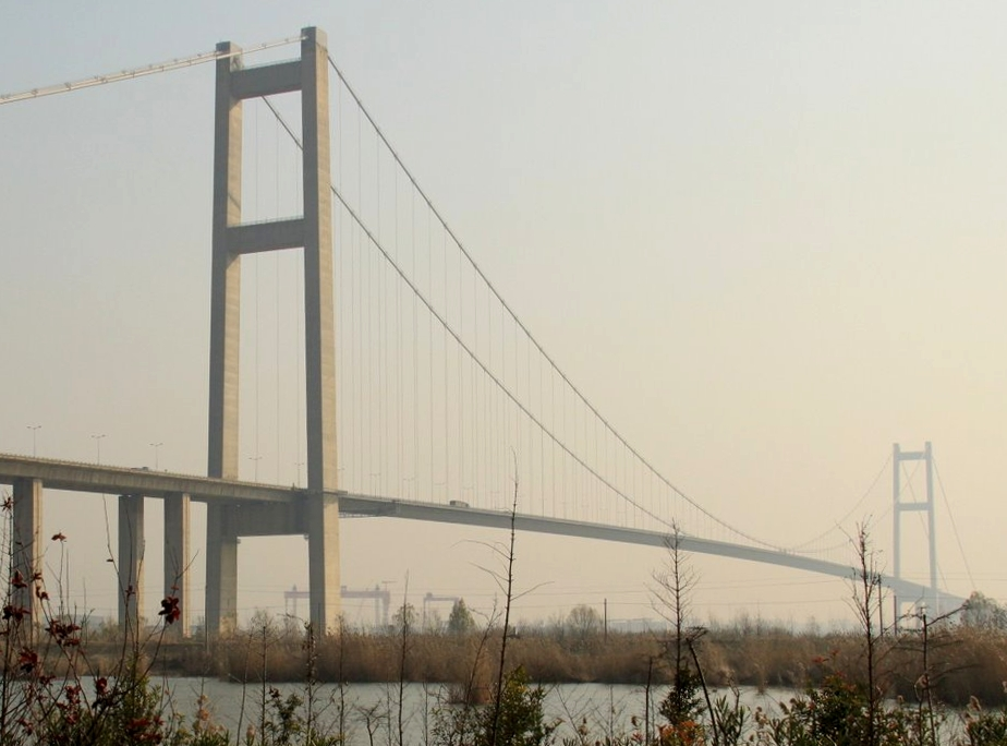 Park at Runyang Bridge over the Chang Jiang (Yangtze River) in Jiangsu province — southern China.